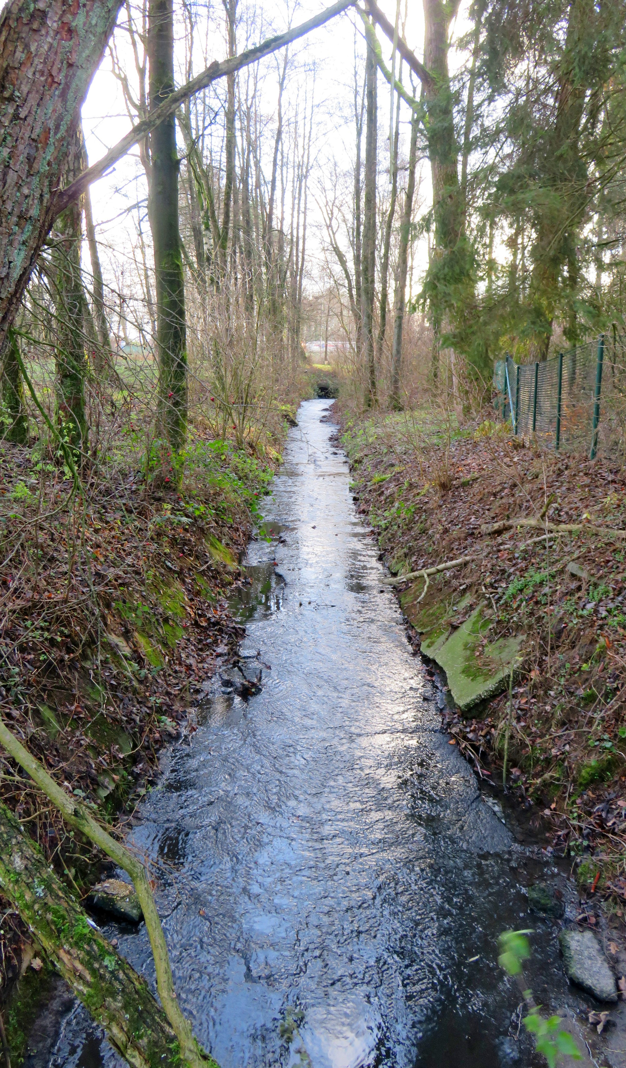 Small stream from the source of the river Geul, nordwest of Lichtenbusch (be), just after he passes the highway Liege-Aachen. Here the stream is laid in concrete.